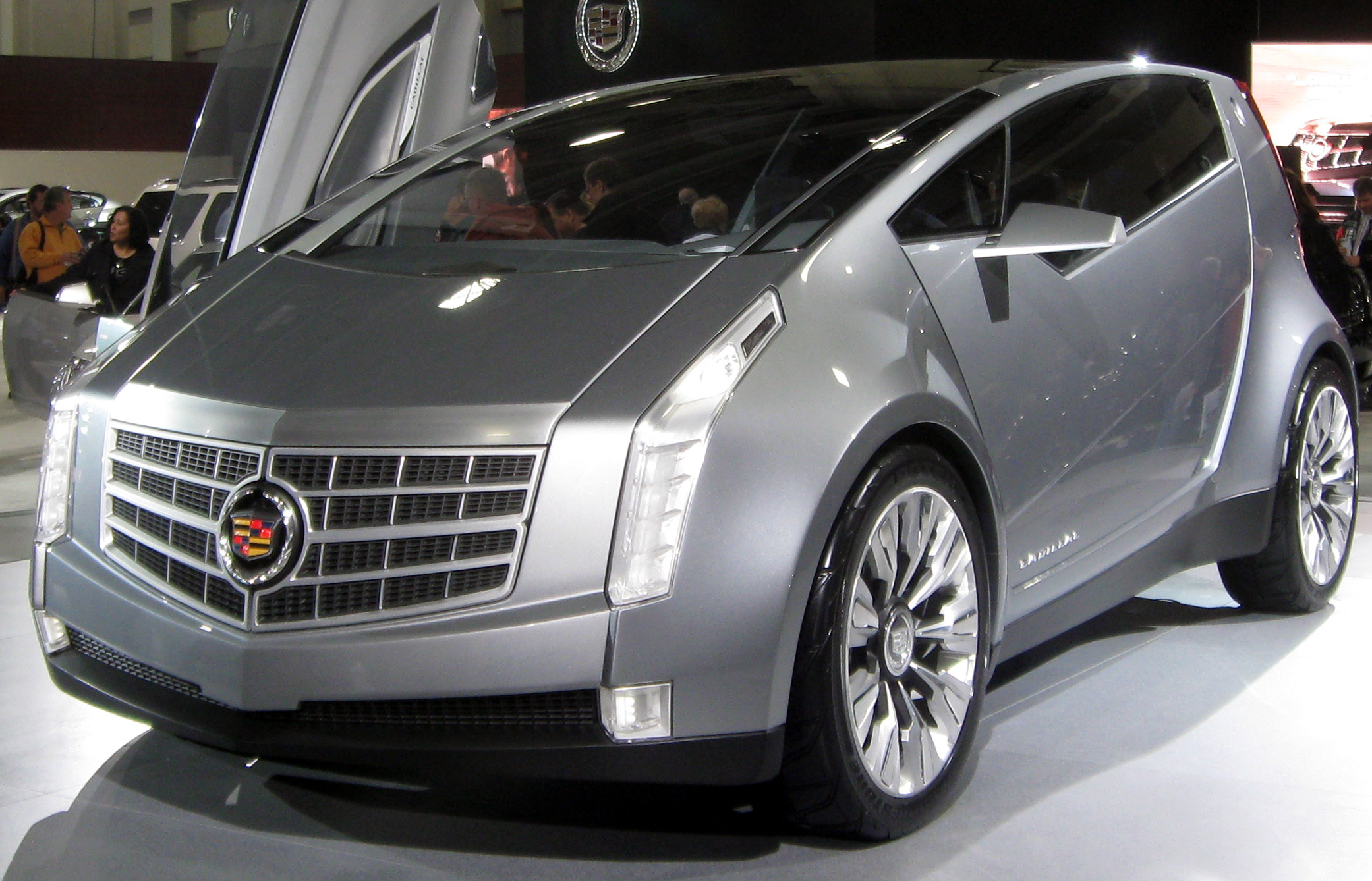 Cadillac ULC concept photographed at the 2011 Washington (D.C.) Auto Show.